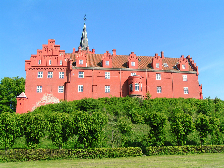 Tranekær Castle at Langeland, Denmark